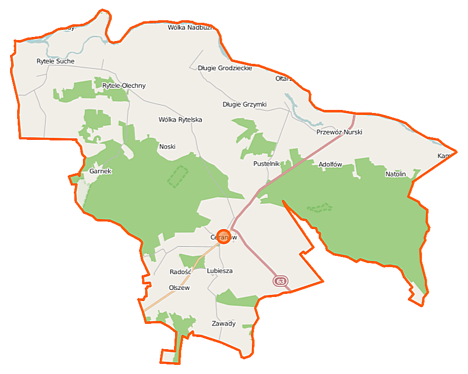 Map of Gmina Ceranów, Poland This map of Ceranów (gmina) was created from OpenStreetMap project data, collected by the community. This map may be incomplete, and may contain errors. Don't rely solely on it for navigation. Border coordinates52.705922.1021←↕→22.356152.5828